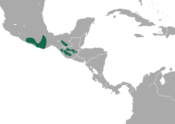 Verapaz Shrew (Sorex veraepacis) range